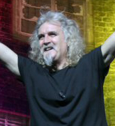 Billy Connolly. Taken by Jemma Lambert on April 13, 2005. Used with permission.